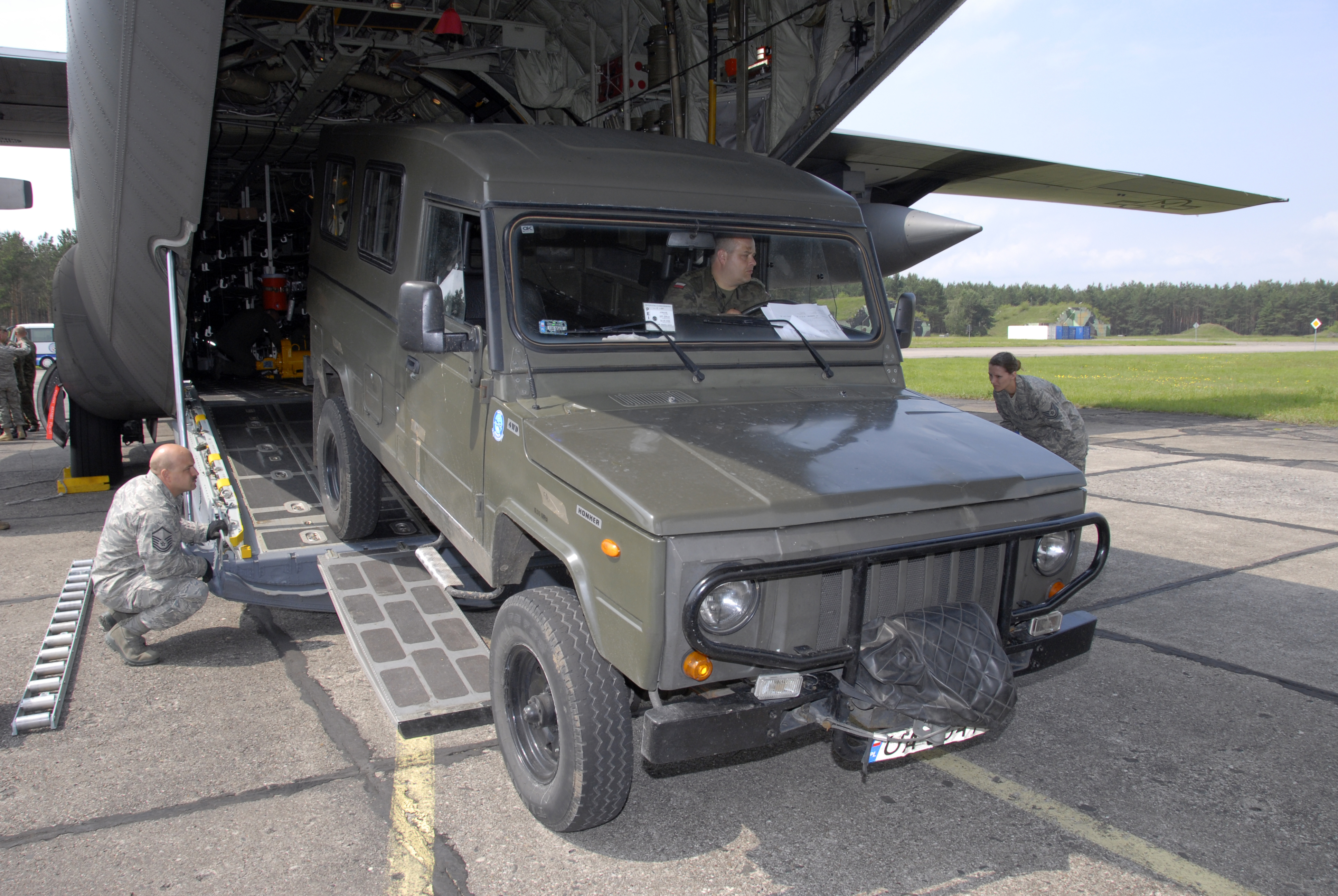 A Polish Honker is getting wenched inside of a C-130 of the 182nd Airlift Wing. The 182nd Airlift Wing is in Poland as part of the Illinois Air National Guard's Partnership with the Polish Air Force under the State Partnership Program.